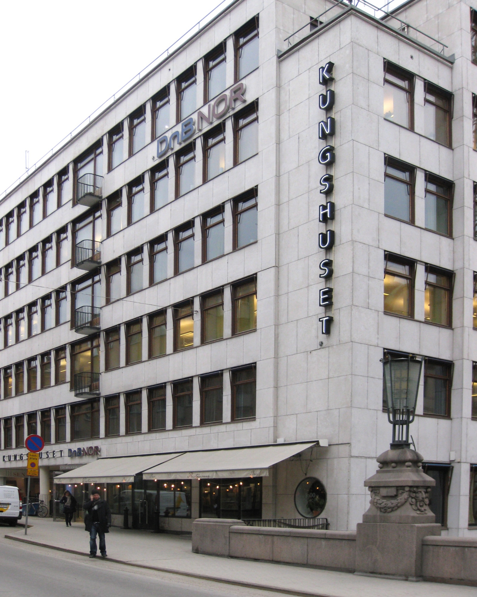 Regeringsgatan 66, Norrmalm, Stockholm, Sweden.